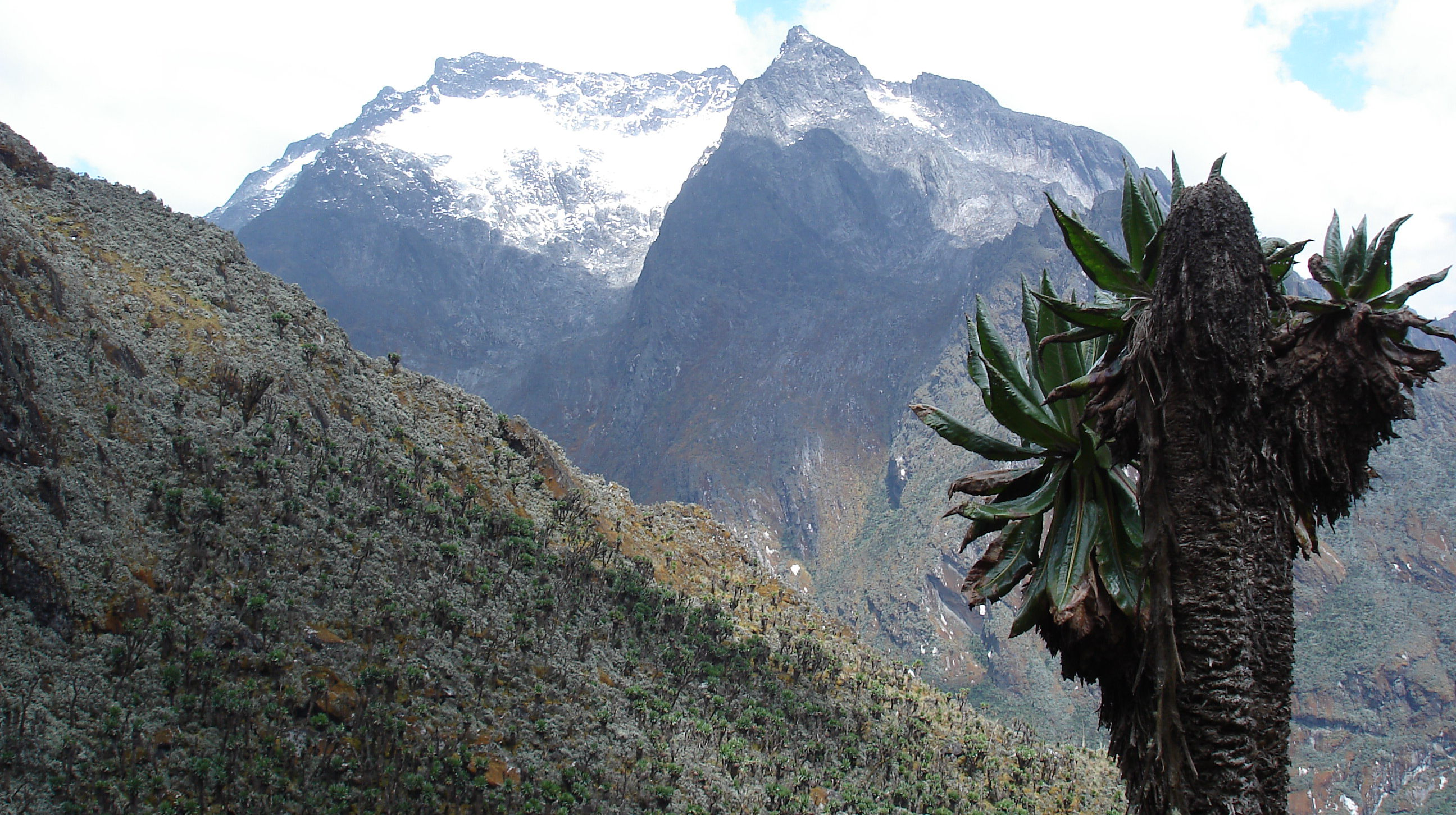 Mt. Speke in the Rwenzori Mountains — as seen from Central Circuit in Uganda (between Bujuku Hut and Scott Elliott Pass). With Dendrosenecio adnivalis (foreground & on slope), in Rwenzori Mountains National Park